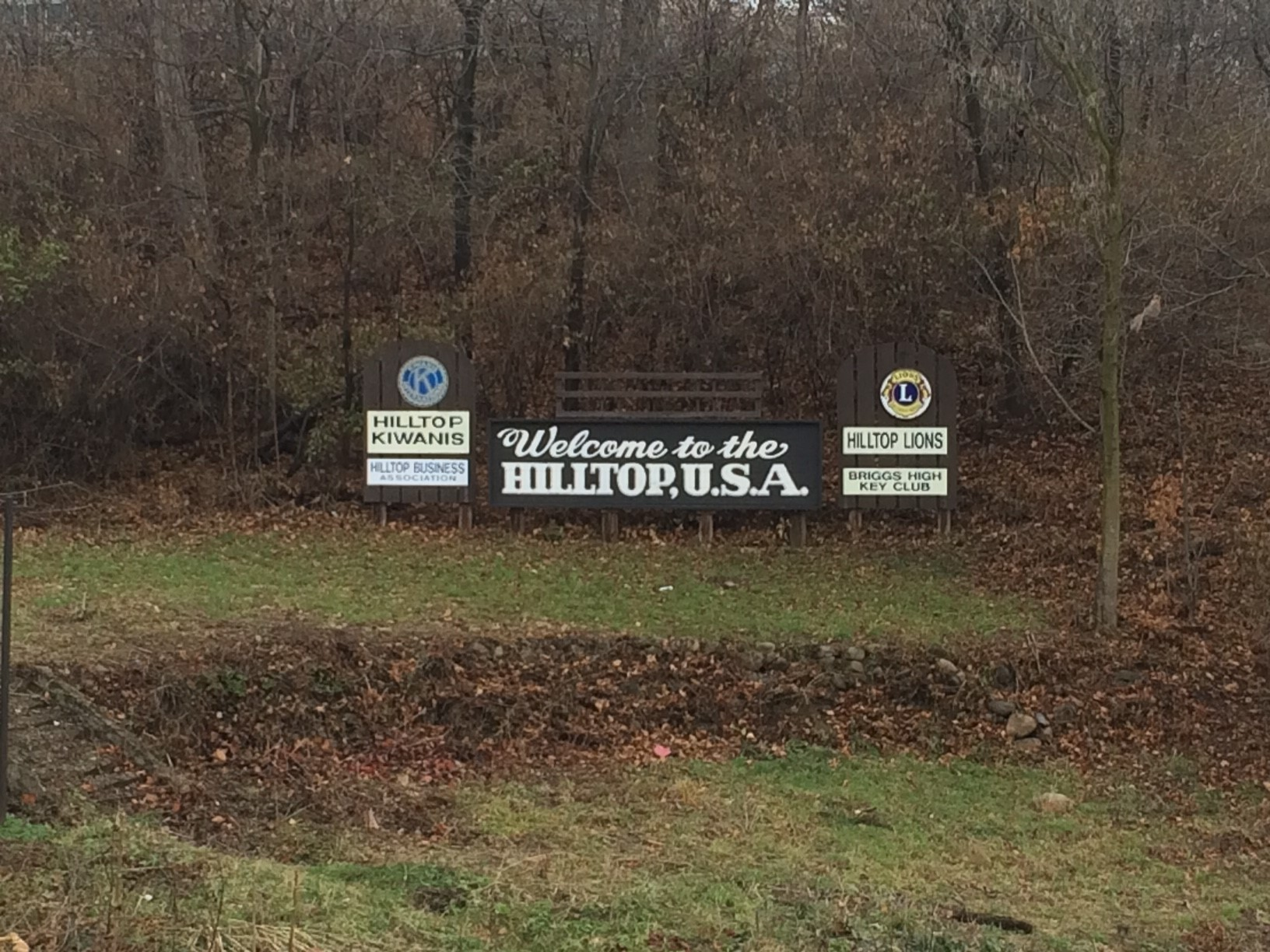 Not available